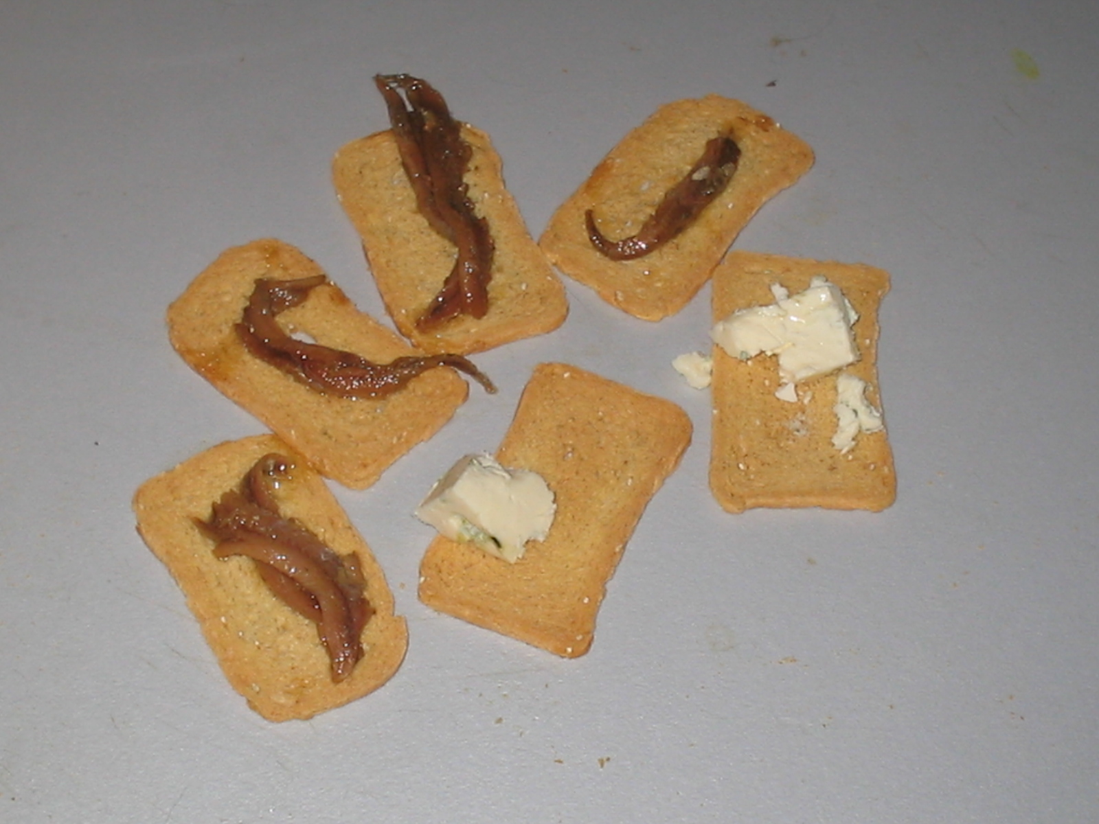 Melba toast with anchovies and cheese.